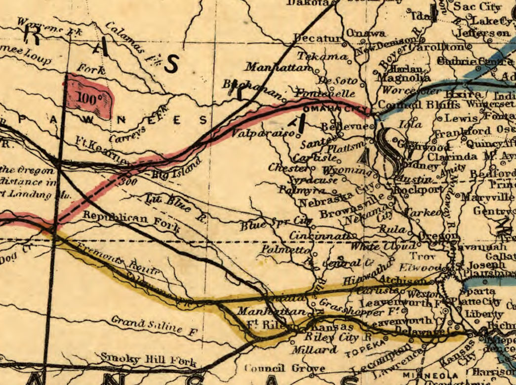 A portion of "Strip map of the United States between 36 degrees and 47 degrees north latitude. Shows drainage, relief by hachures, state boundaries, place names, and some trails in the western half of the map. Indicates the proposed lines for the western, central, and eastern divisions of the Union Pacific Railroad."